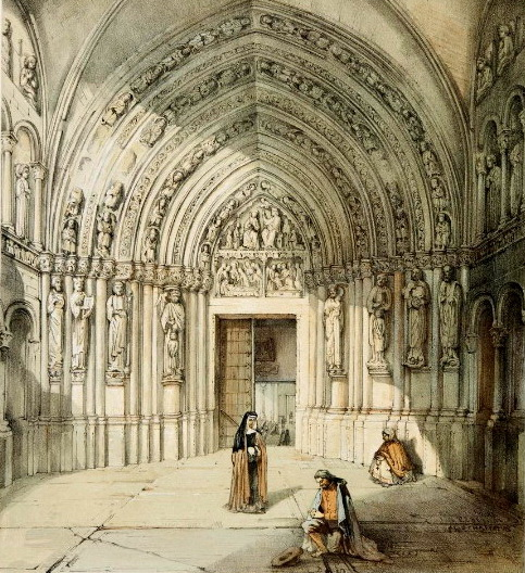 Maastricht, the Netherlands. View of the South Portal of the Basilica of Saint Servatius. Water colour by Alexander Schaepkens, mid-19th c.